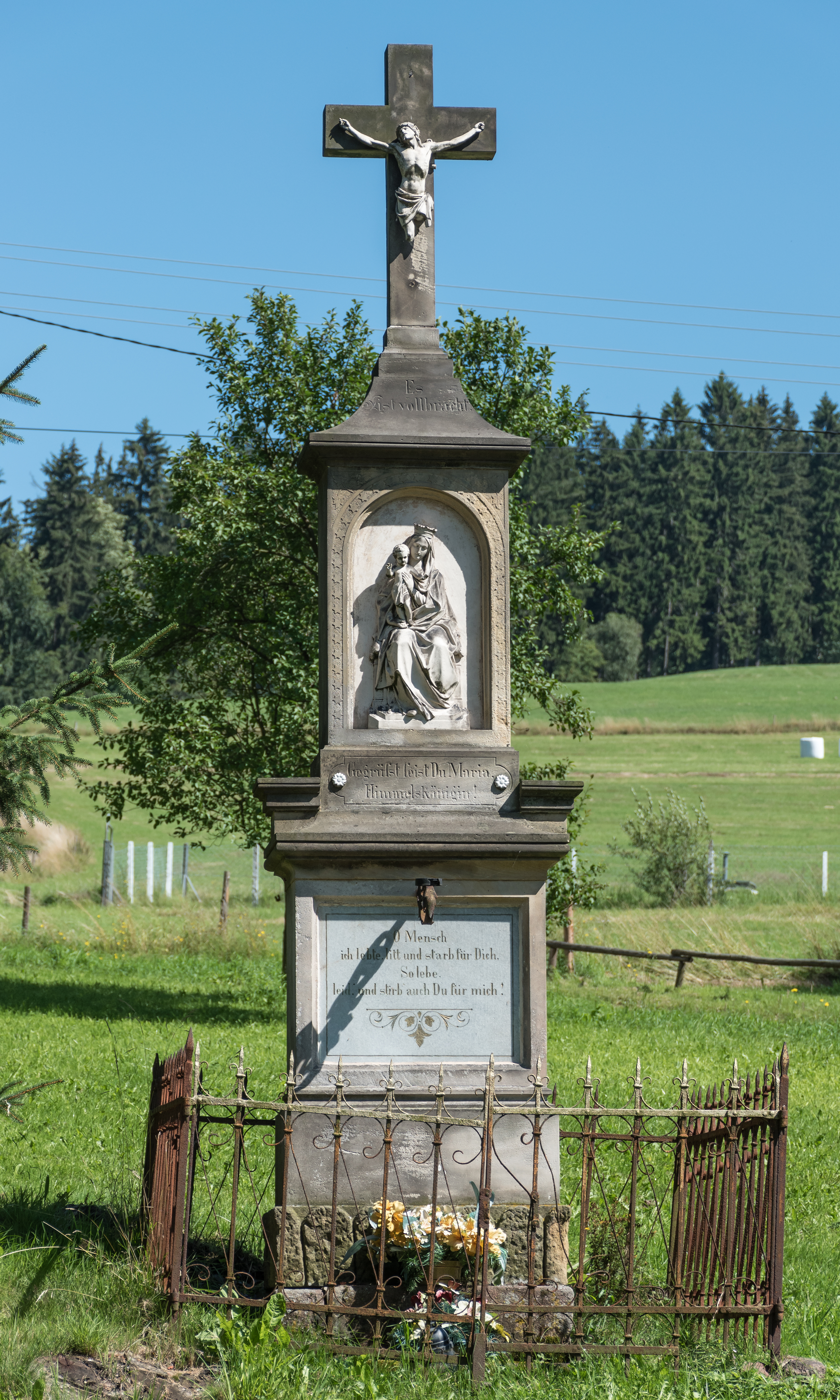 Roadside crucifix in Świerki